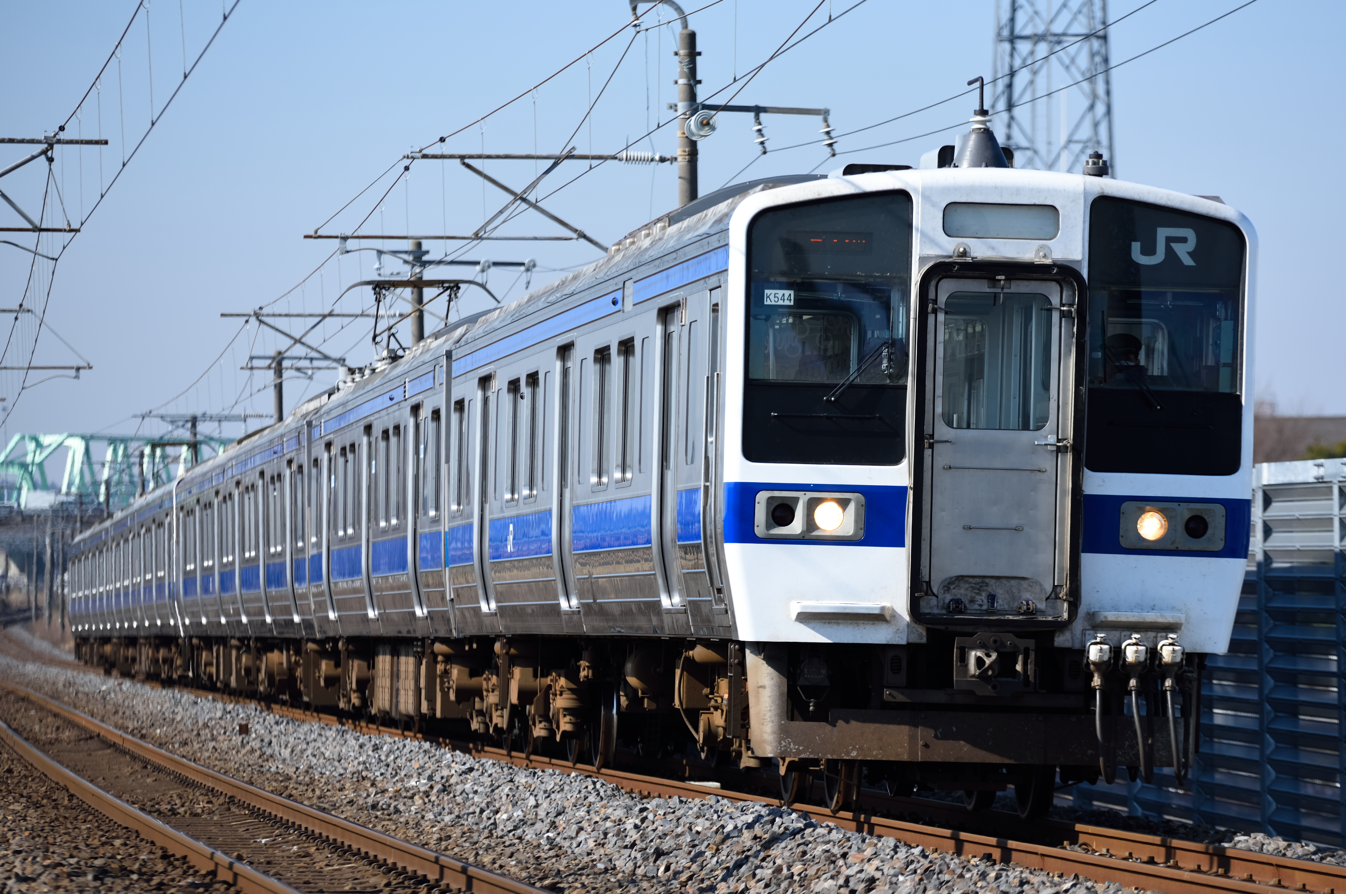 JR East 415-1500 series EMU set K544 leading an 8-car formation